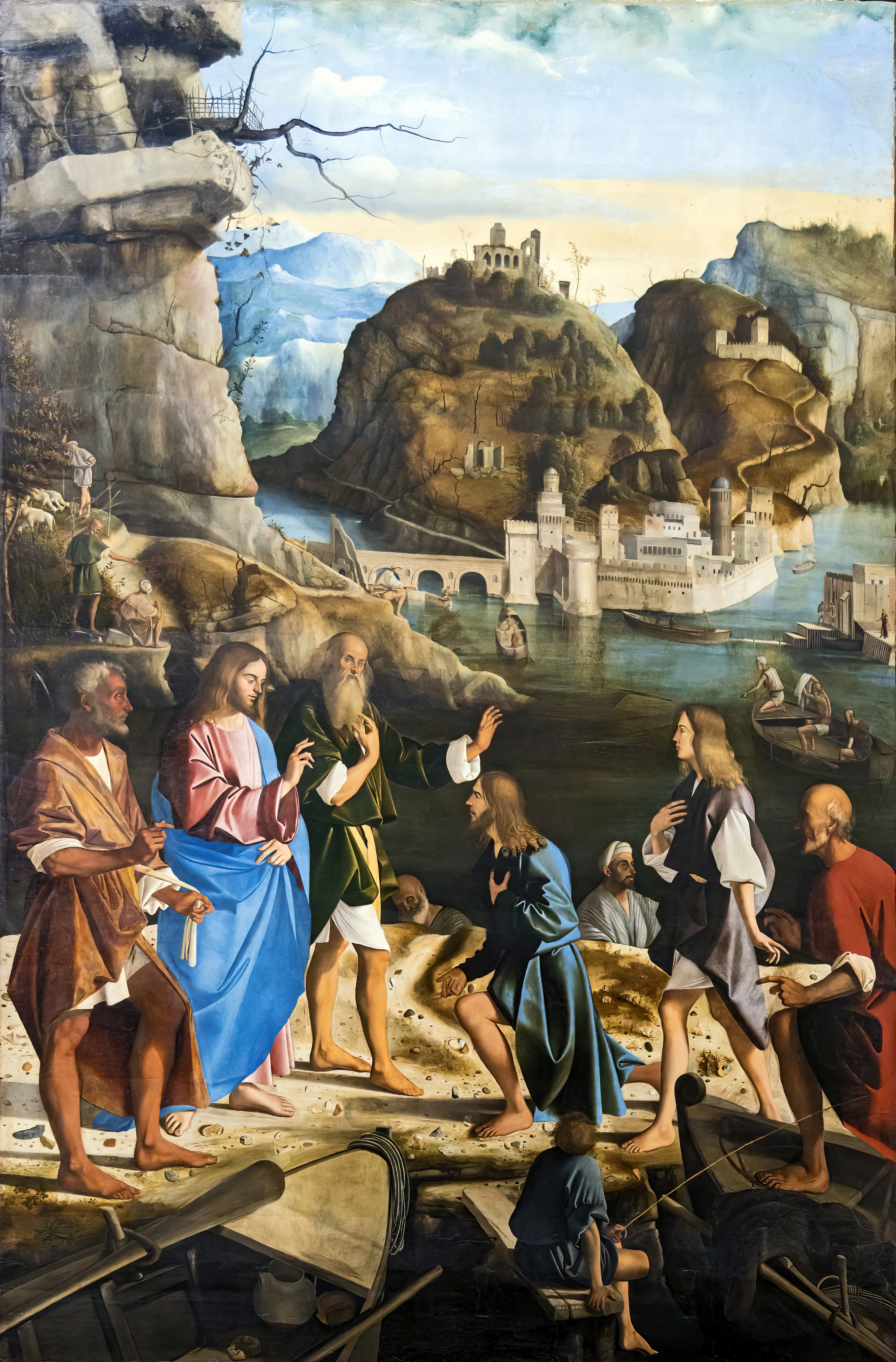 In the foreground Christ flanked by Peter and Andrew, calling to himself and blesses James and John who, having left the boat and their father Zebedee, is coming to him. In the background the lake of Tiberias.